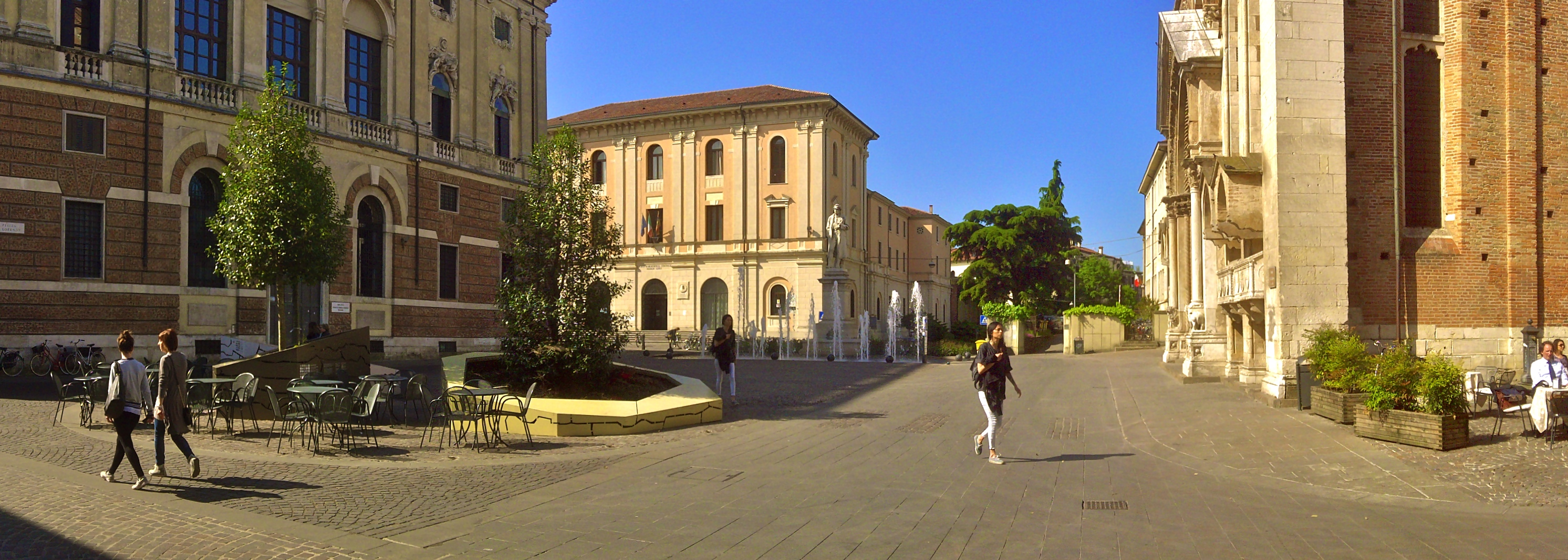 Northern view of St Lawrence Square, Vicenza (Italy)